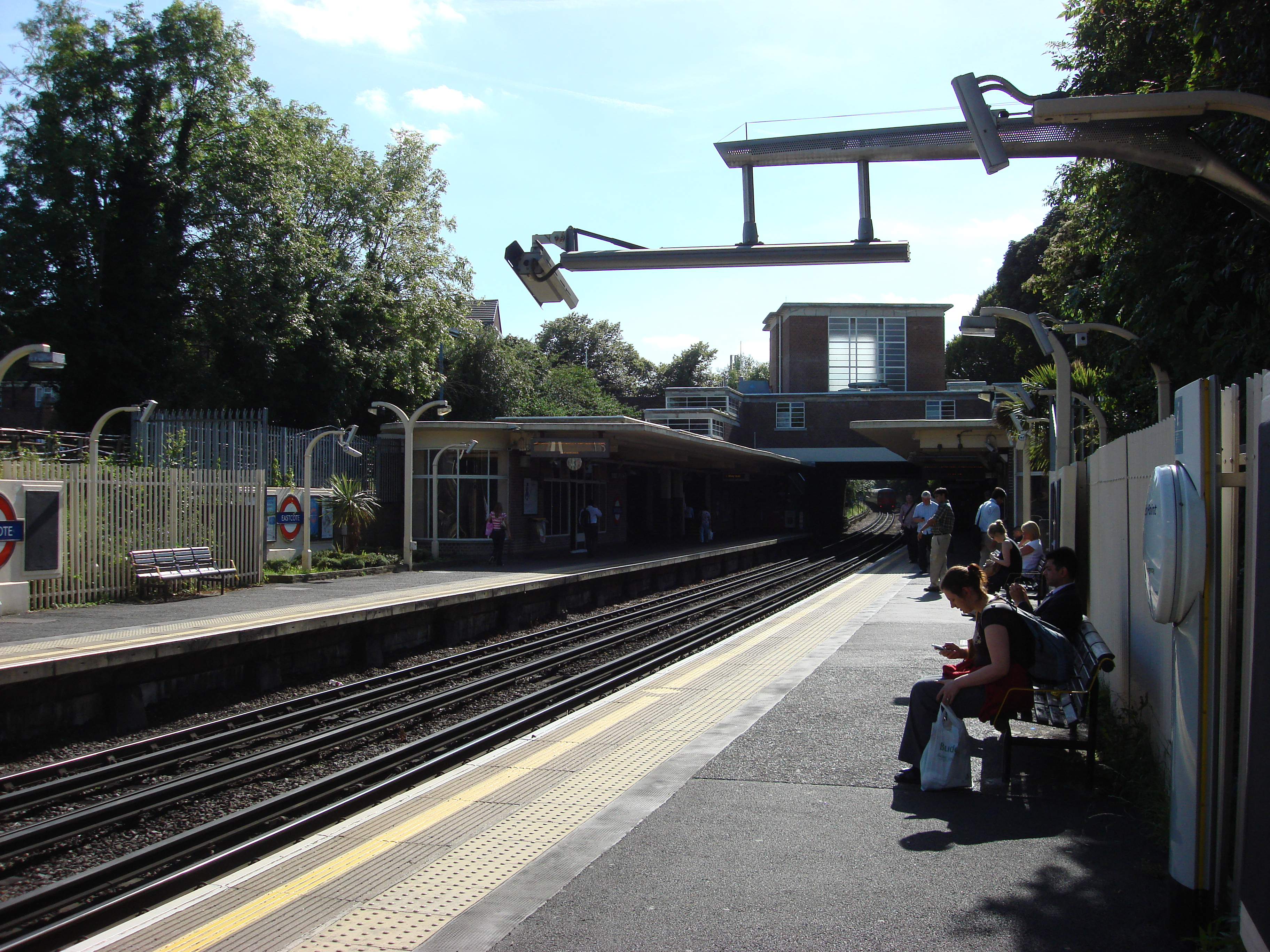 Eastcote tube station, Eastbound platform looking west